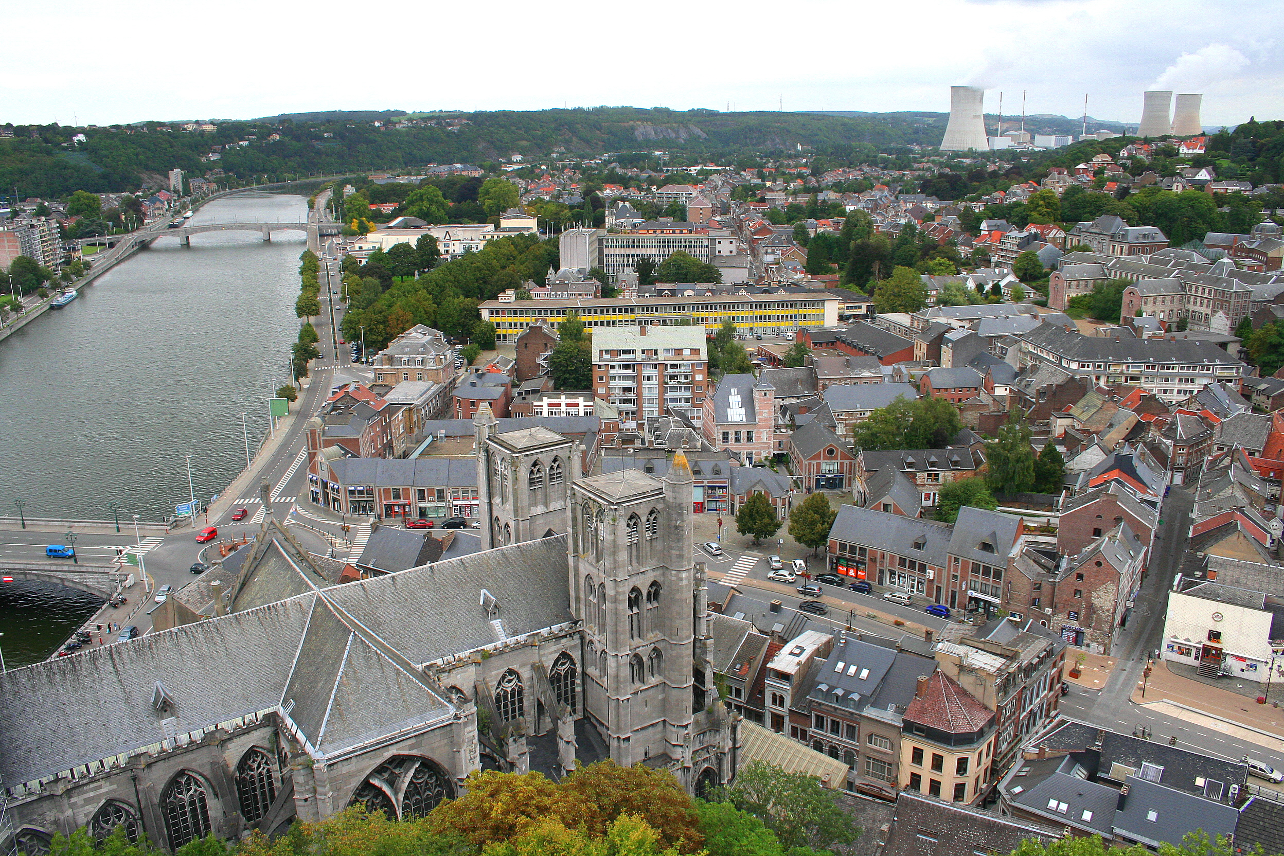 Huy (Belgium), The Notre-Dame Collegiate church (XIVth century), the Meuse and the roofs of the city.